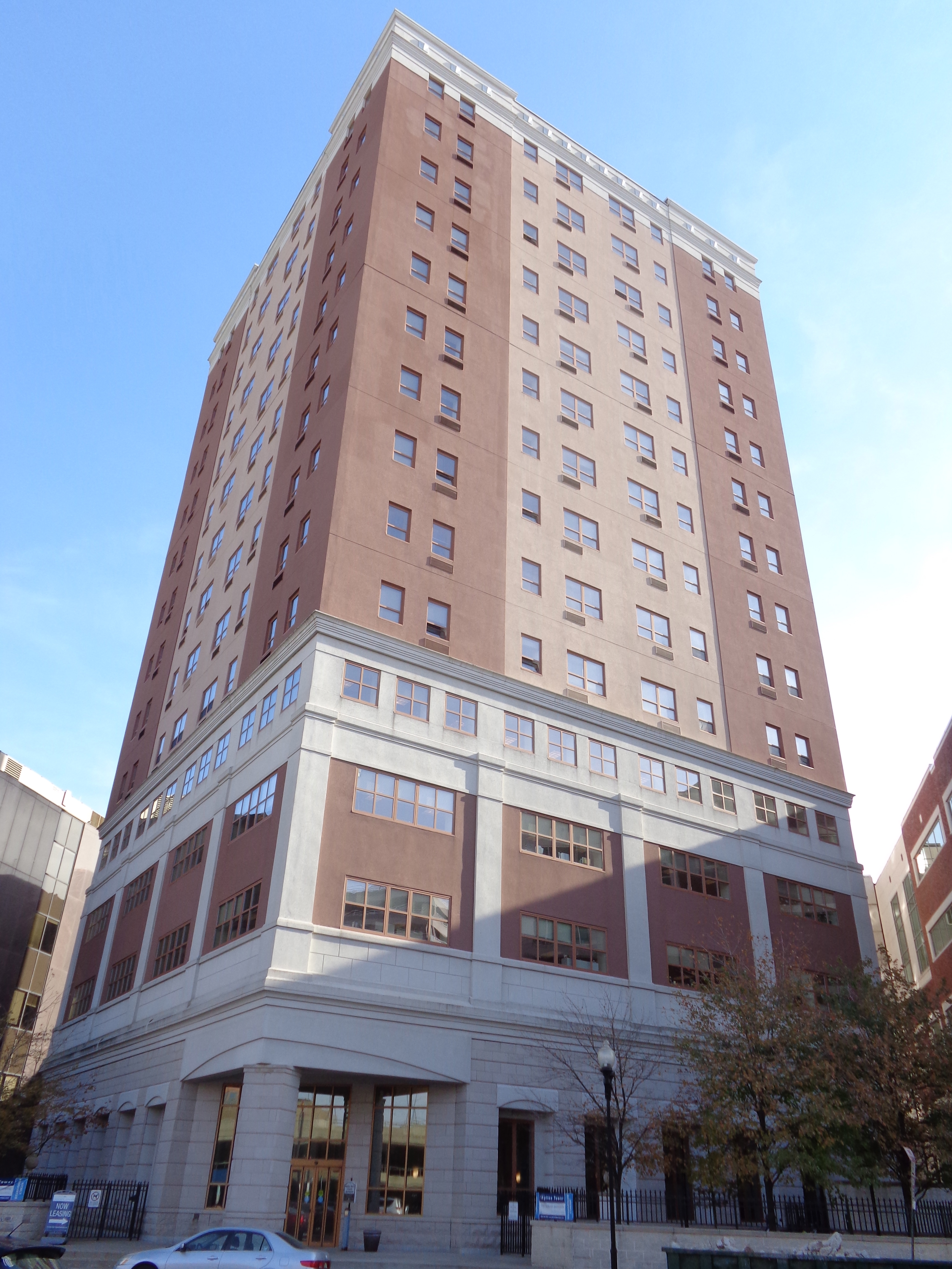 The Skyline, formerly the Middlesex County Administration Building, New Brunwick